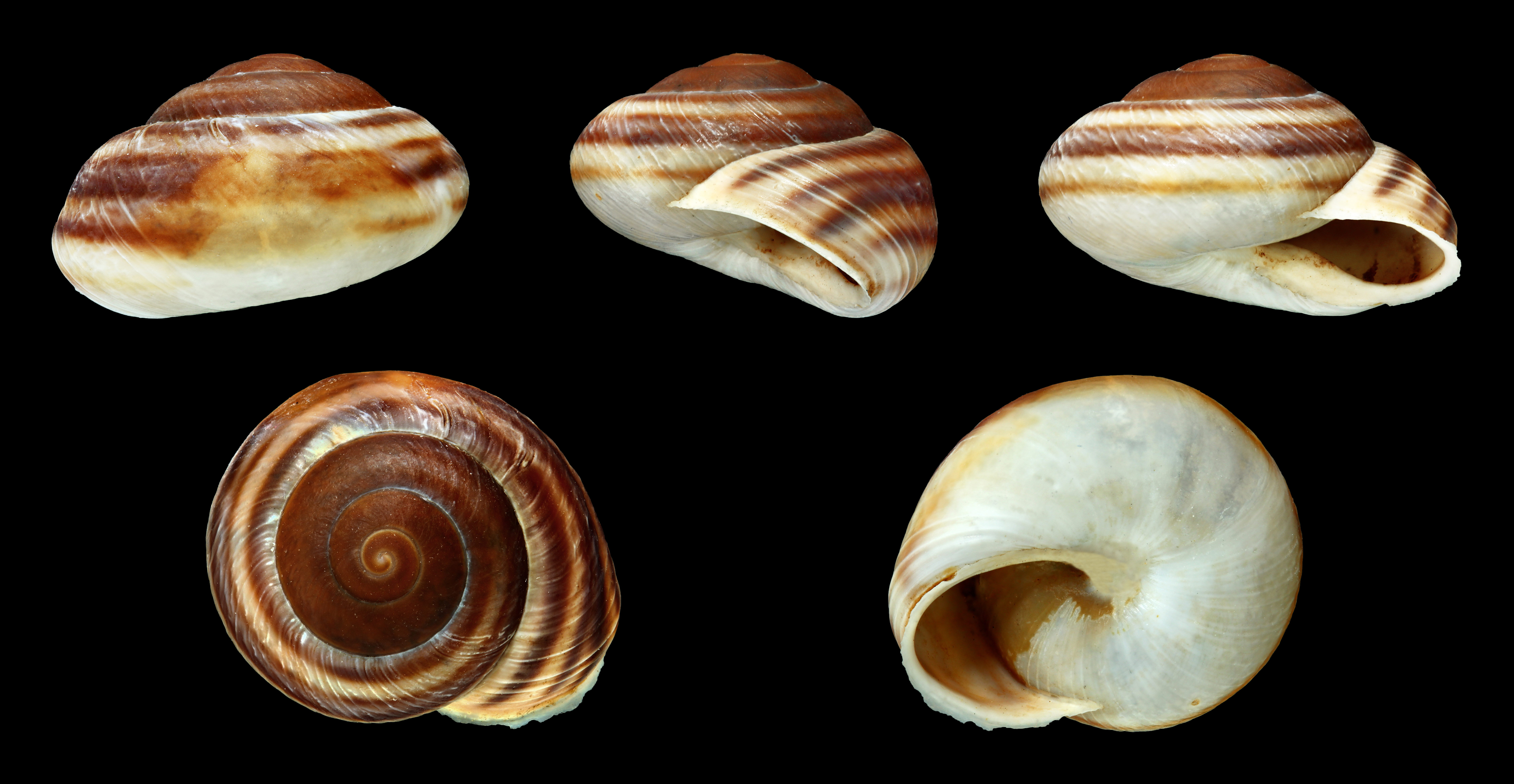 Diameter 2.0 cm; Originating from the Barranco del Infierno, Tenerife, Canary Islands, Spain; Shell of own collection, therefore not geocoded.